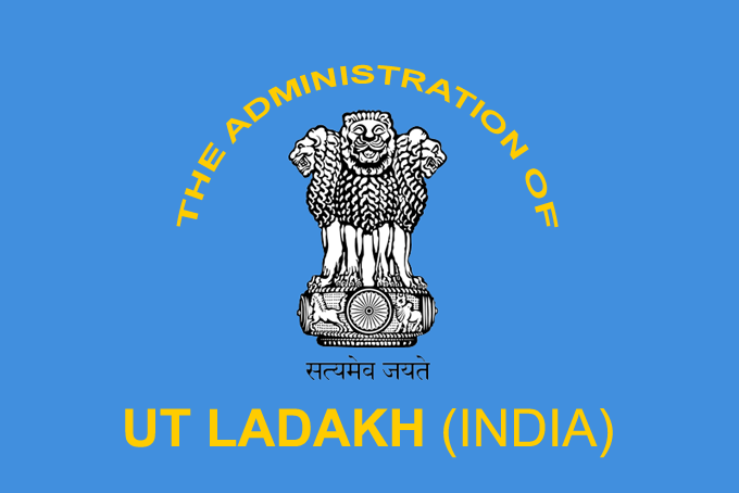 Banner of the Government of Ladakh